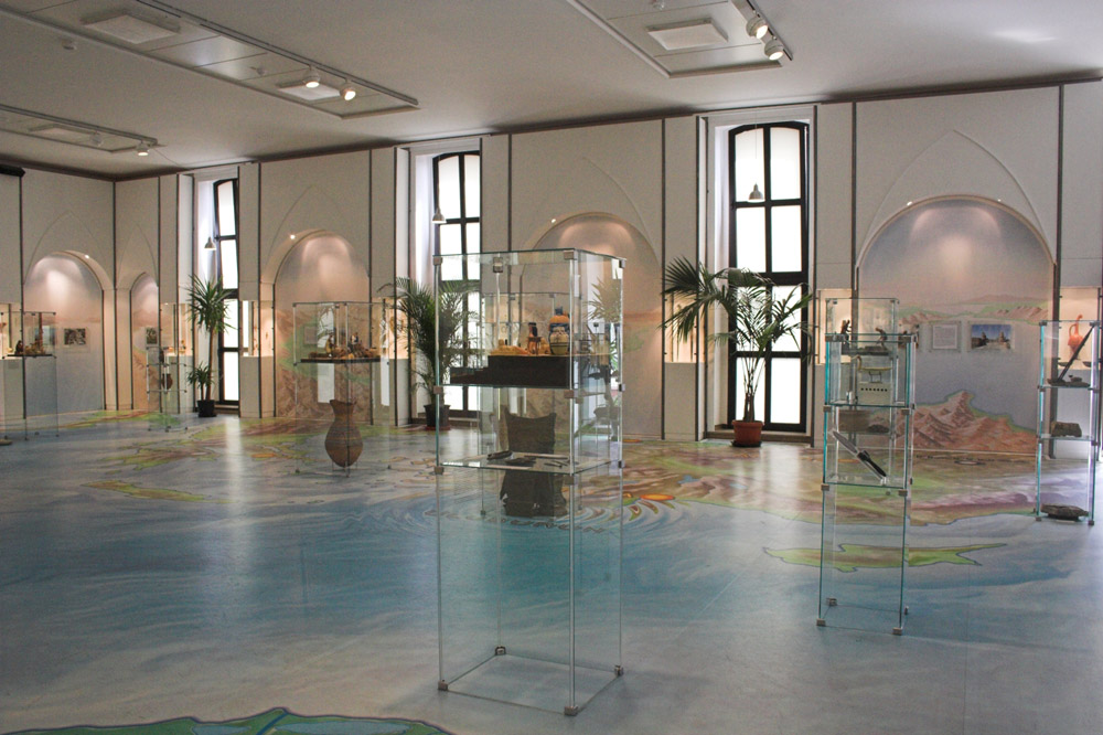 Information Description: Showroom from the exhibition "Das Schiff von Uluburun" at Bochum, Germany with original artefacts from the wreck. Source: own work Date: June 2006 Author: Martin Bahmann